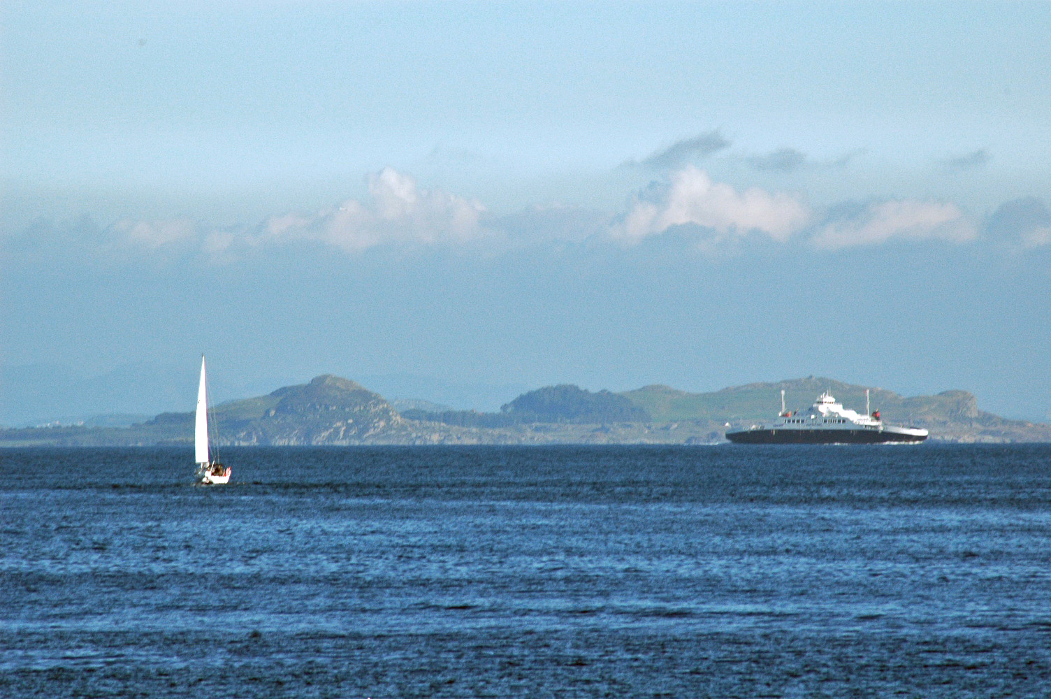 The Bokna Fjord from Austre Bokn